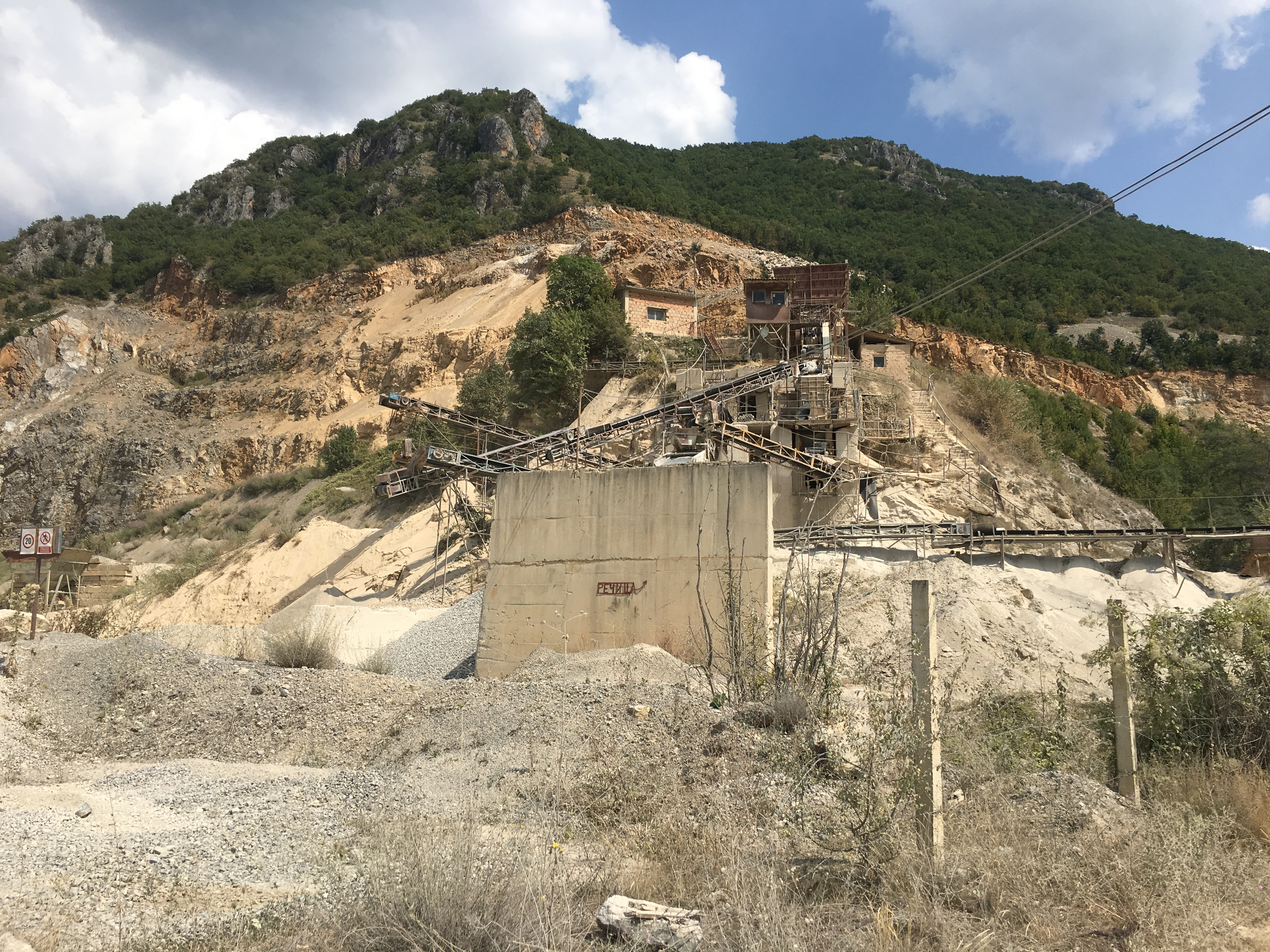 A quarry near the village of Zavoj